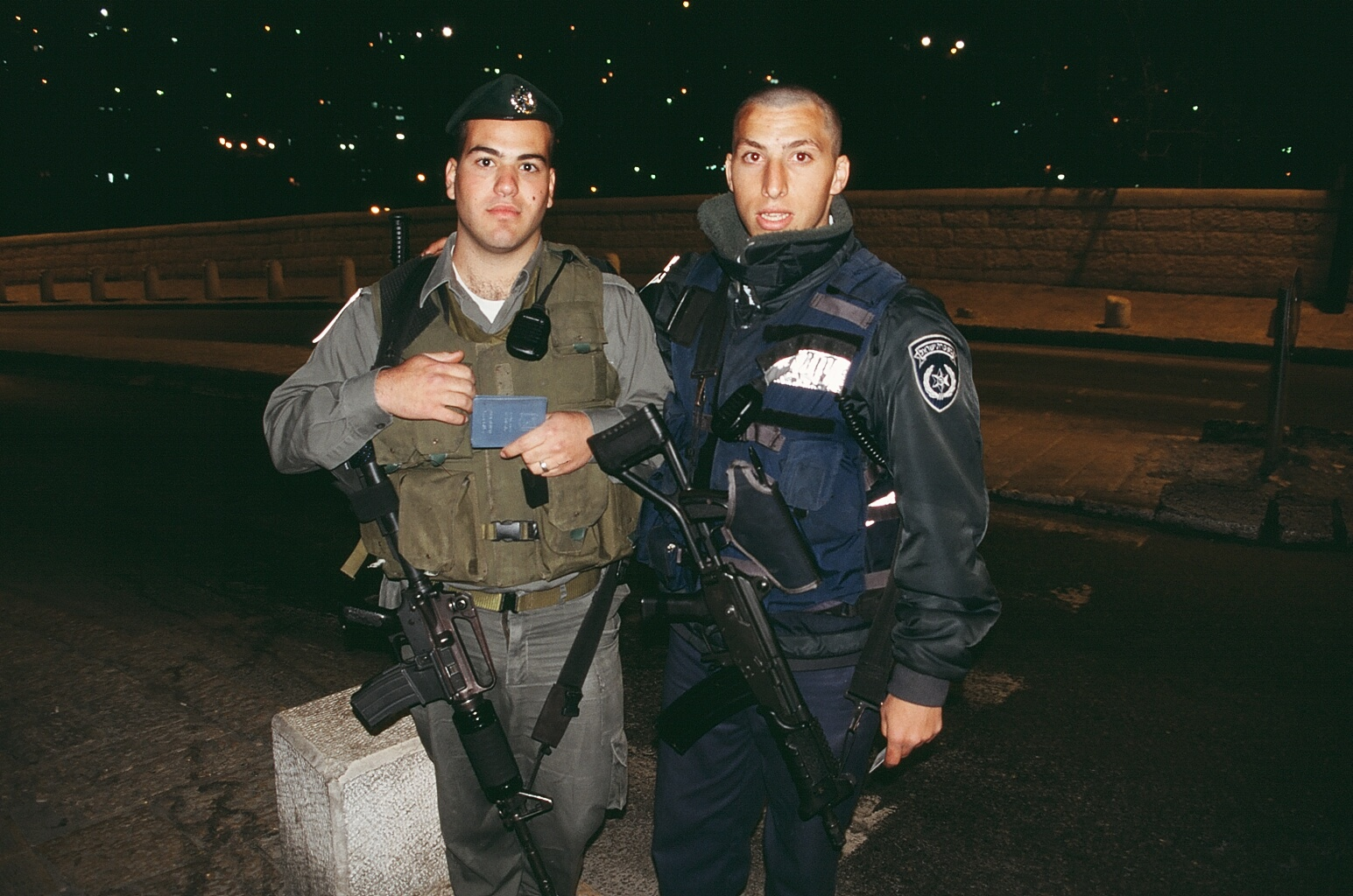 Israel 8 Soldiers Israeli policemen. The left one serves in Israel Border Police and armed with Colt Commando. The right one serves in the "blue" Israel Police and armed with Micro-Galil (MAGAL).